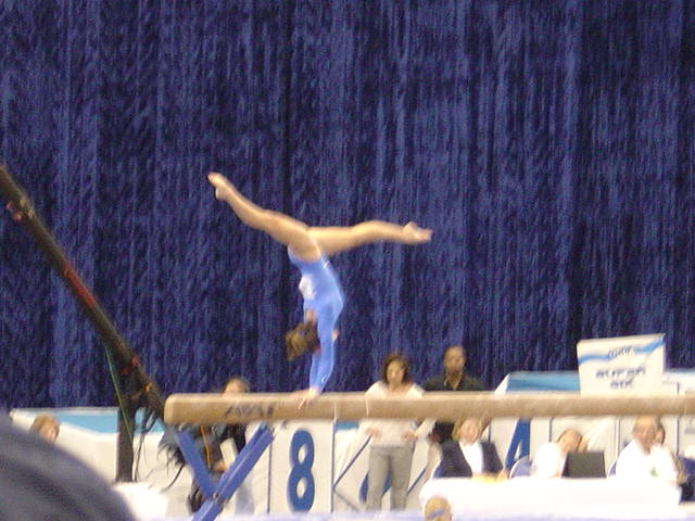 I went to a few meets 2 seasons ago, it reminded me of my college gymnastics days...UCLA gymnastics - beam